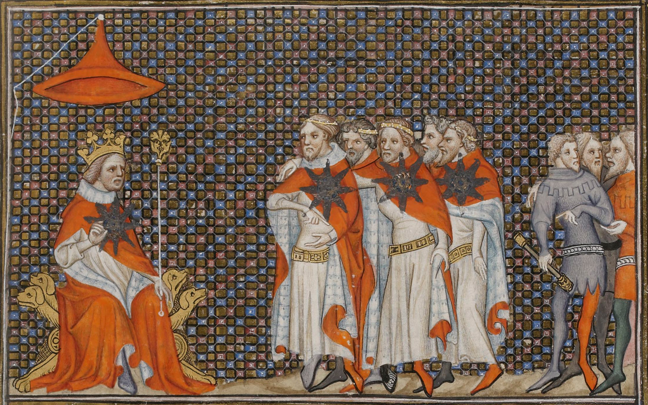 inception: Order of the Star